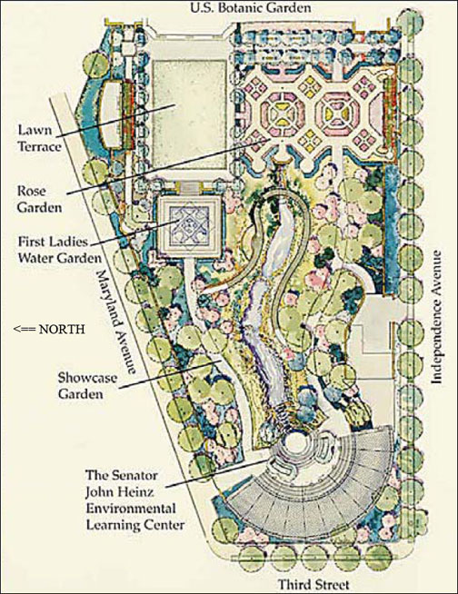 Map of the National Garden in the United States Botanic Garden, Washington, D.C.